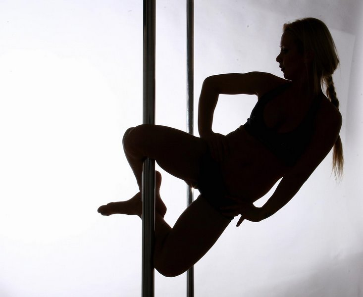 Silhouette of a poledancer.